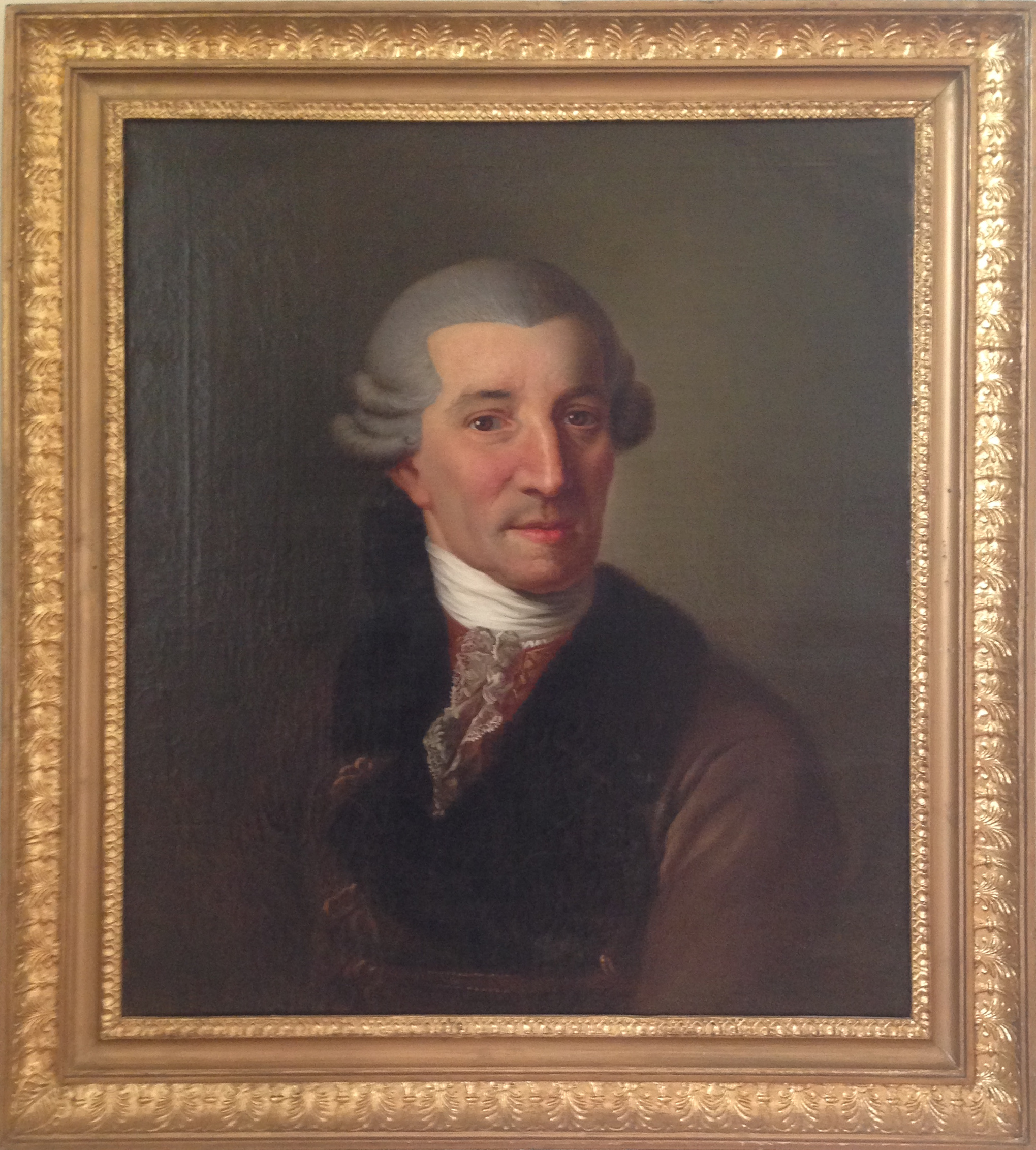 Depicted person: Joseph Haydn